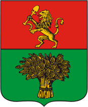 Kansk (Krasnoyarsk krai), coat of arms (1855)